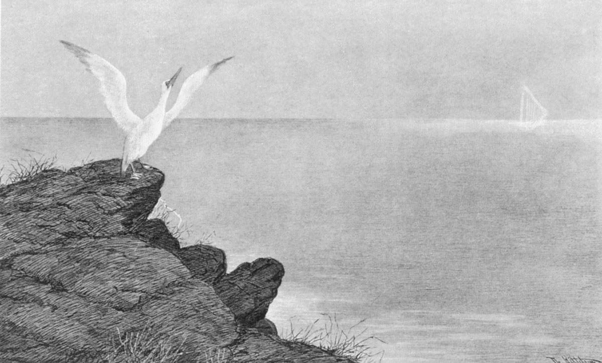 Theodor Kittelsen (1857 – 1914) from Fra Lofoten -- 1891